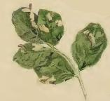 Stainton’s Natural History of the Tineina (1855–1873): Coleophora serenella piece of leaf of Astragalus glycyphyllos, with larval mines and cases attached